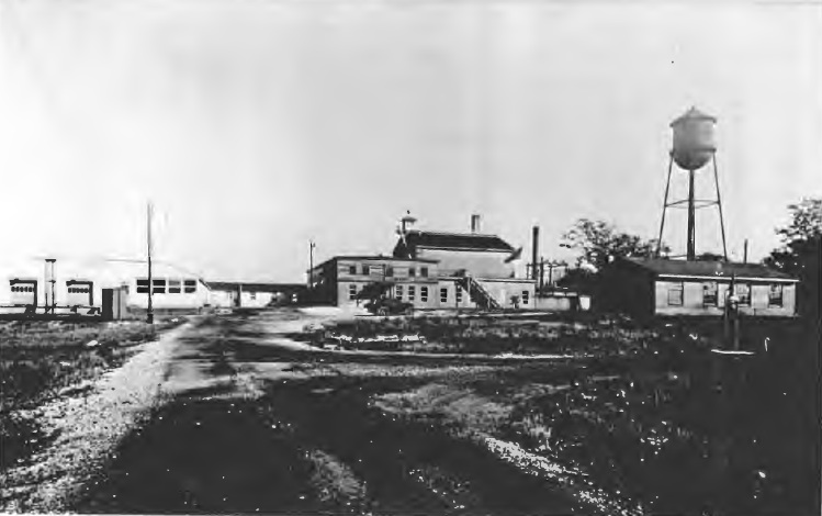 Argonne Laboratory at original site